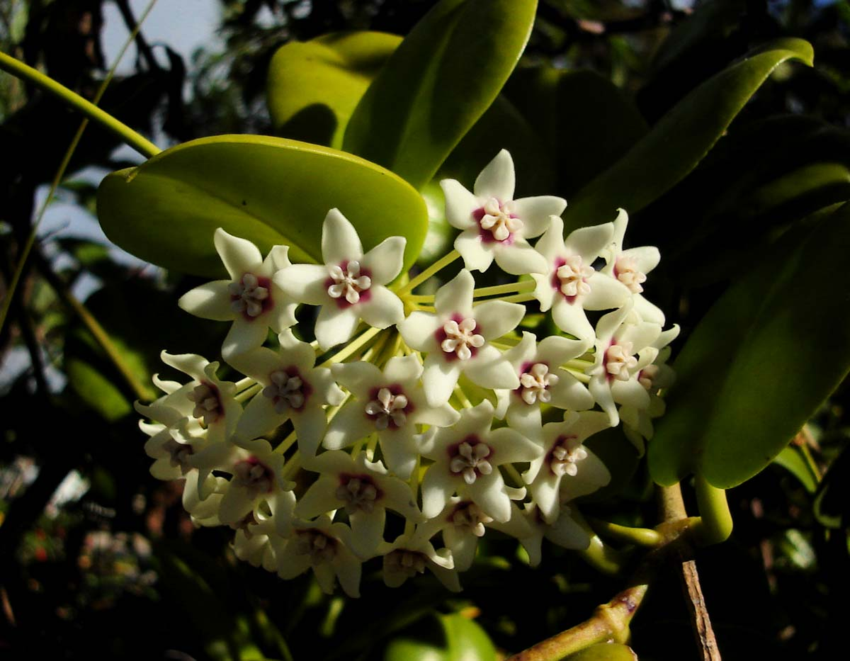 Hoya australis, flowers, leaves; (laumatolu) along a Tonga beach